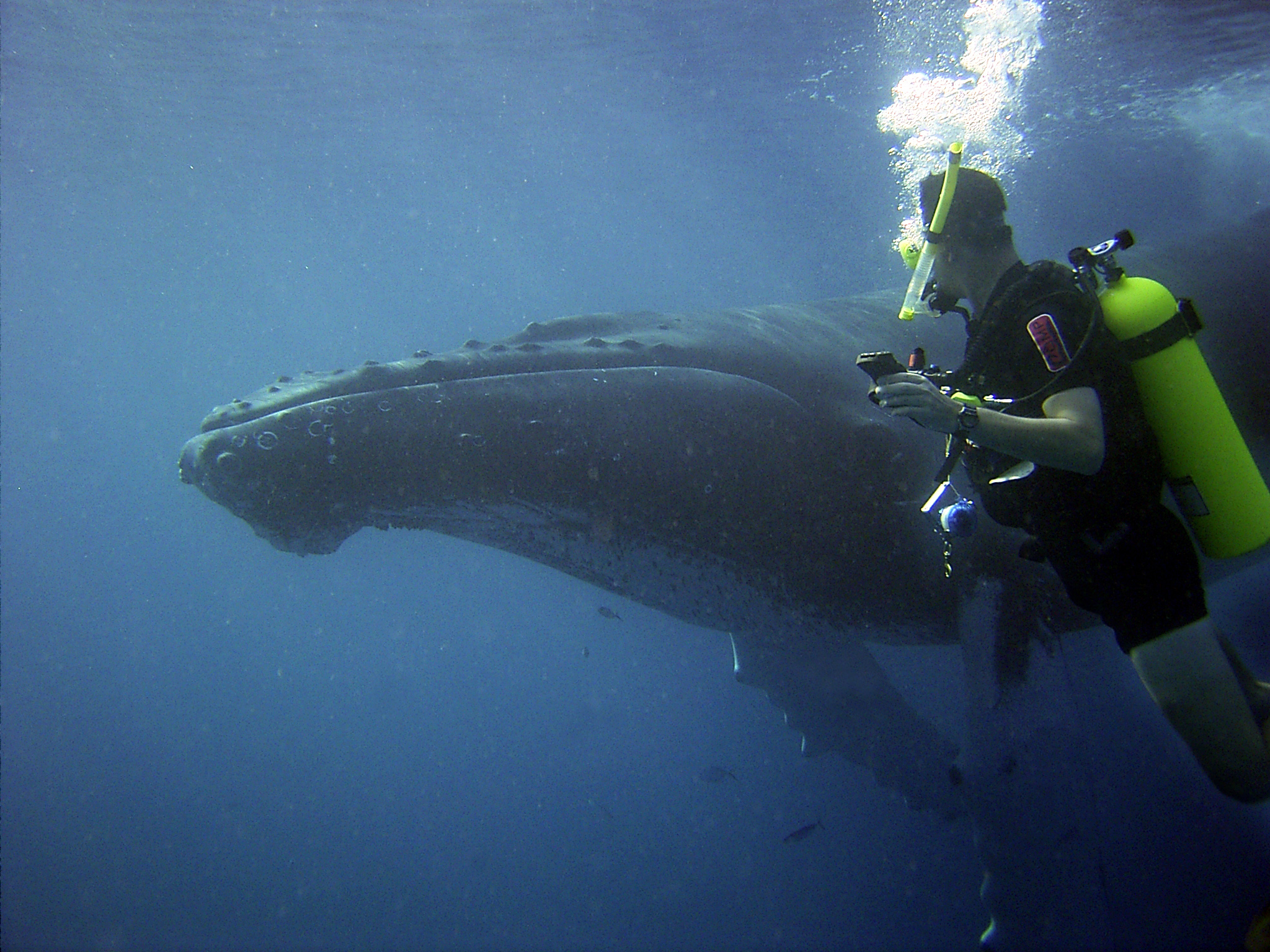 Lieutenant Commander Joe Pica observing a curious humpback whale who came to visit during recovery of underwater acoustic current meter. Dominican Republic. February, 2006.